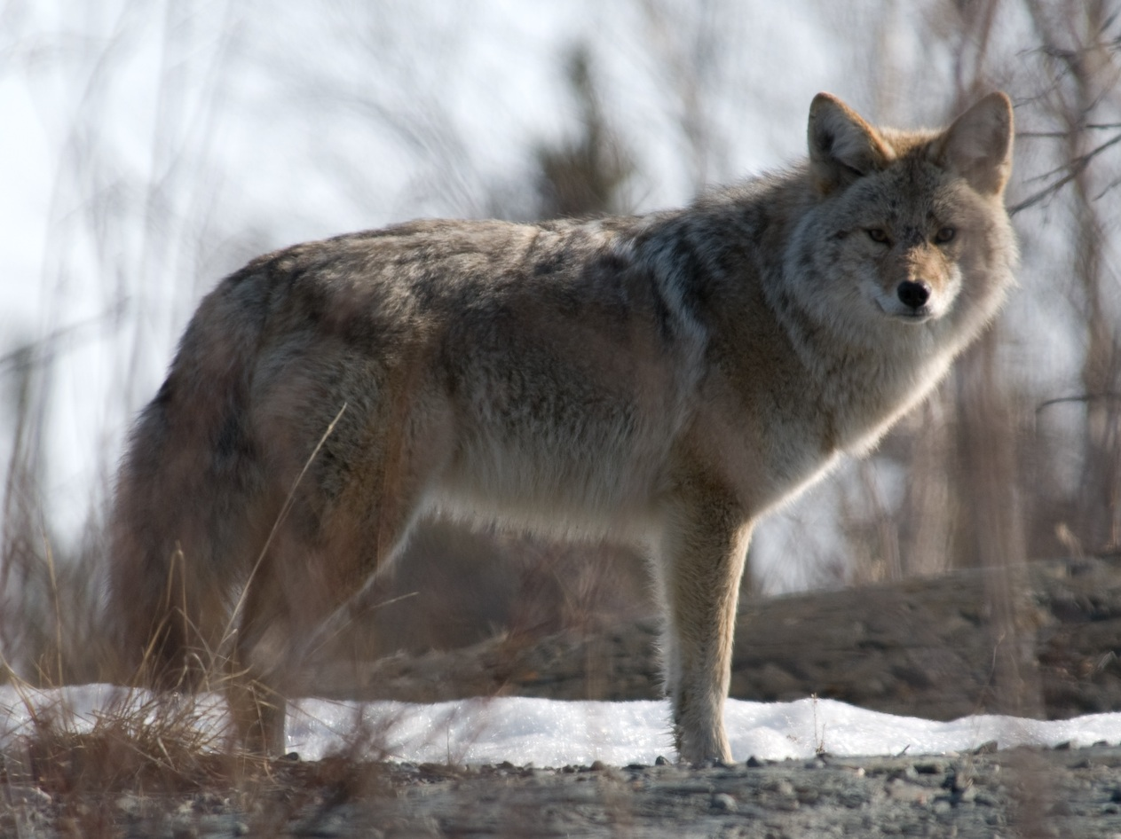 Coyote in Yellowknife, Canada